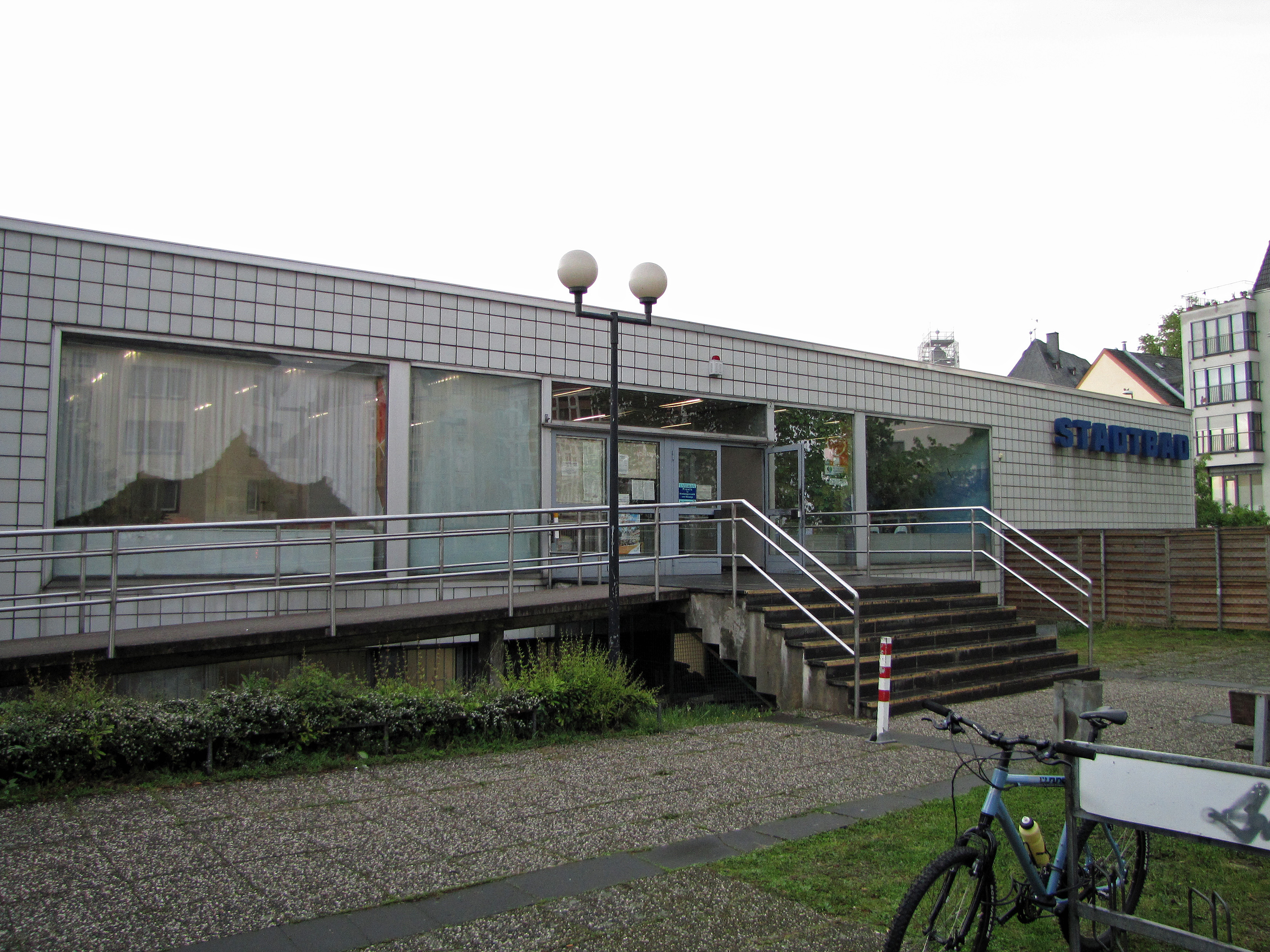 Natatorium in Koblenz